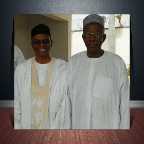 During a visit by Nasir El-Rufa'i